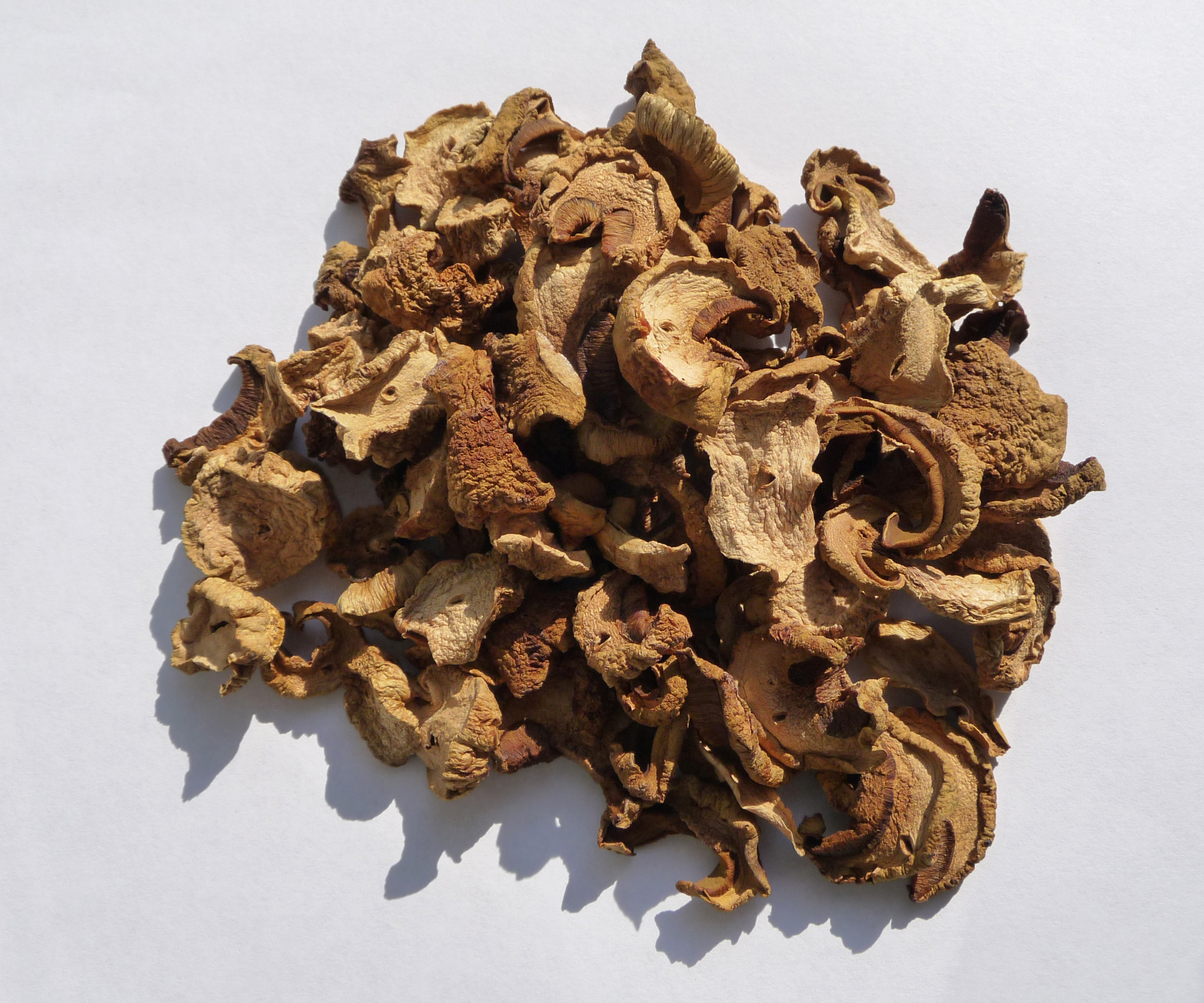 Iodine bolete Boletus impolitus dried mushrooms.